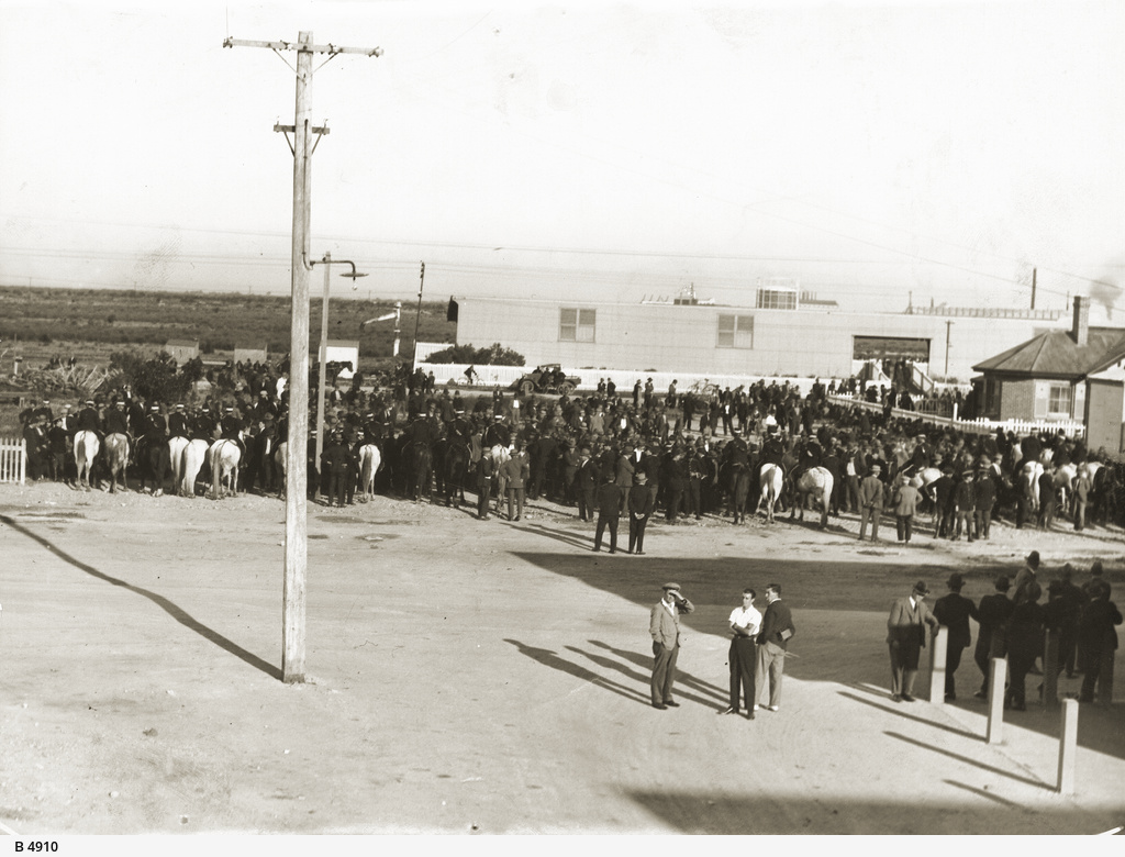 A group of men, probably the strikers, have formed a loose crowd whilst mounted police, mostly on greys, stand by. Outer Harbour buildings and the sea can be seen in the distance.